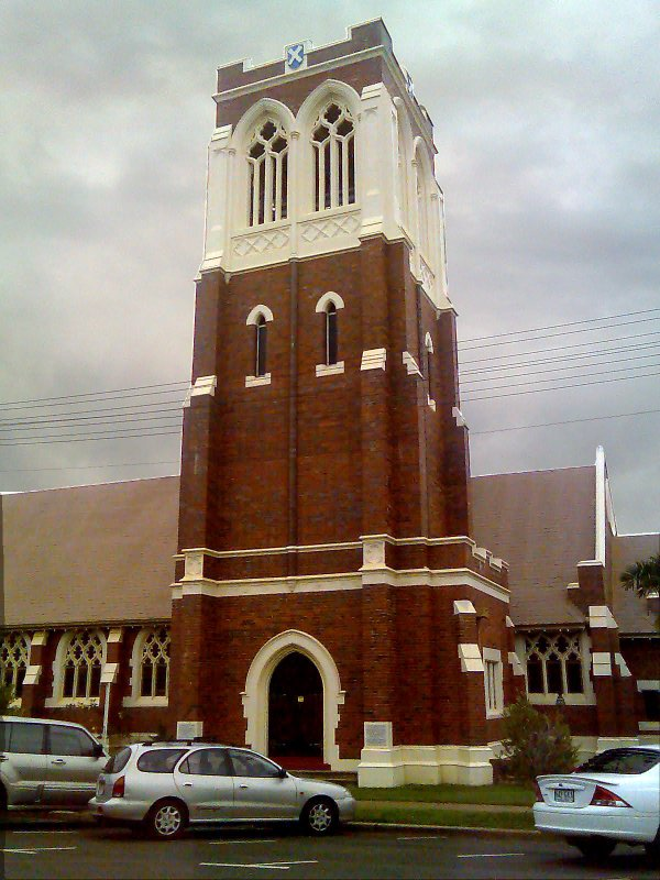 This is an image of the Bundaberg Seventh-day Adventist Church. It was purchased off the Presbyterians and is known as Saint Andrew's. The image was taken by myself on my camera phone. Category:Images relating to the Seventh-day Adventist Church Ð¡Ð»Ð¸ÐºÐ°:Bundabergsda.jpg